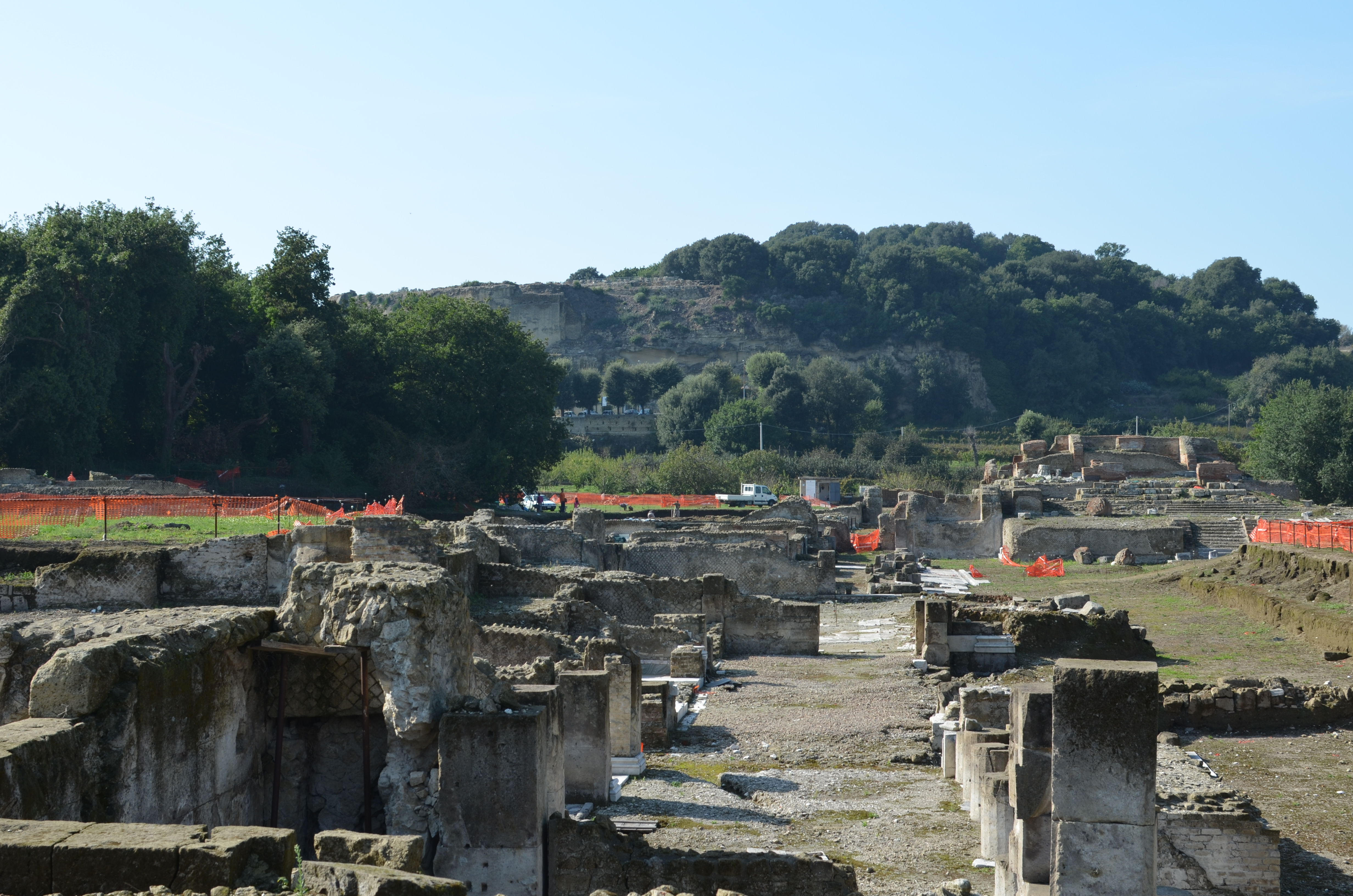 The acropolis of Cumae seen from the lower city. I could not make more more photos of the lower city because excavations were in progress.